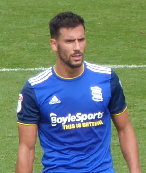 Maxime Colin playing for Birmingham City in the EFL Championship match against Brentford at Griffin Park on 3 August 2019